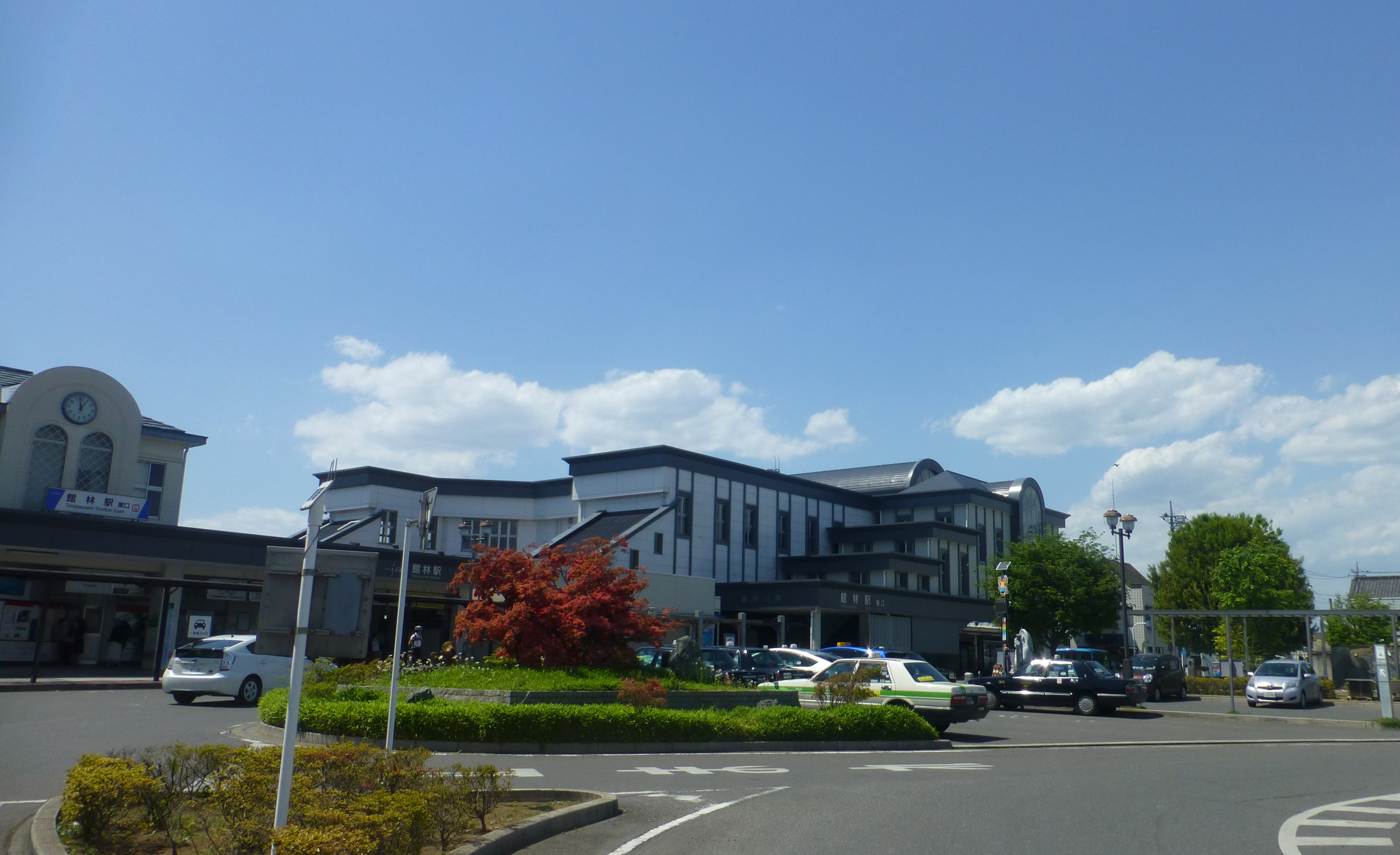 Tatebayashi station (館林駅)